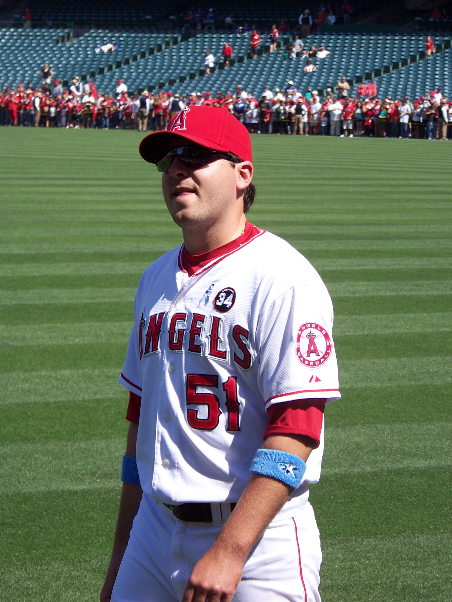 Joe Saunders